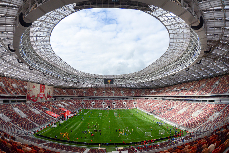 Luzhniki Stadium in Moscow